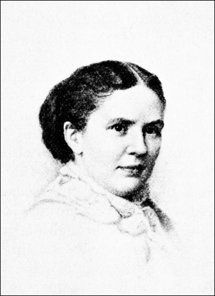 Alice Cunningham Fletcher